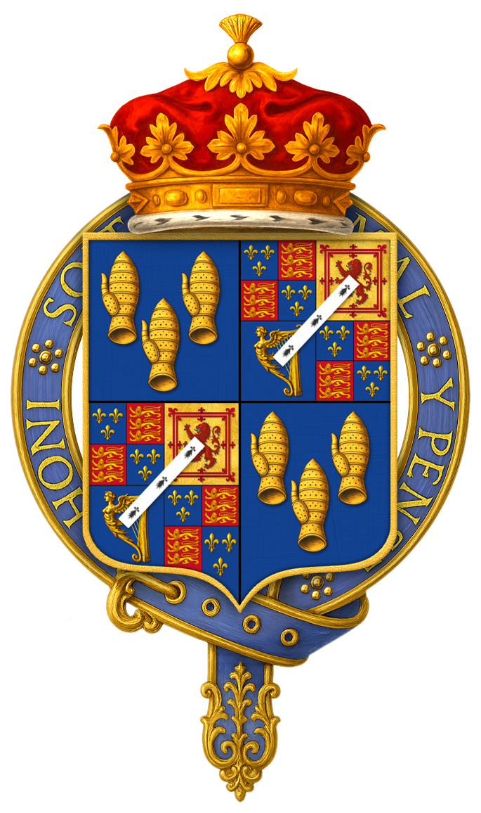 Shield of arms of William Harry Vane, 1st Duke of Cleveland, KG